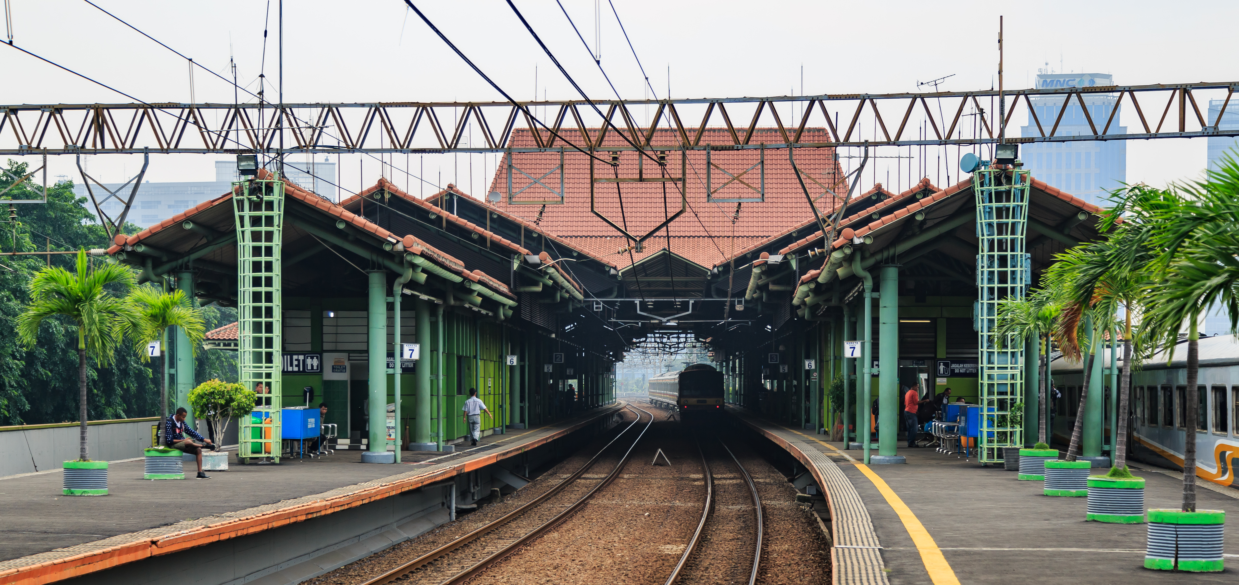 Jakarta, Indonesia: Gambir Station.